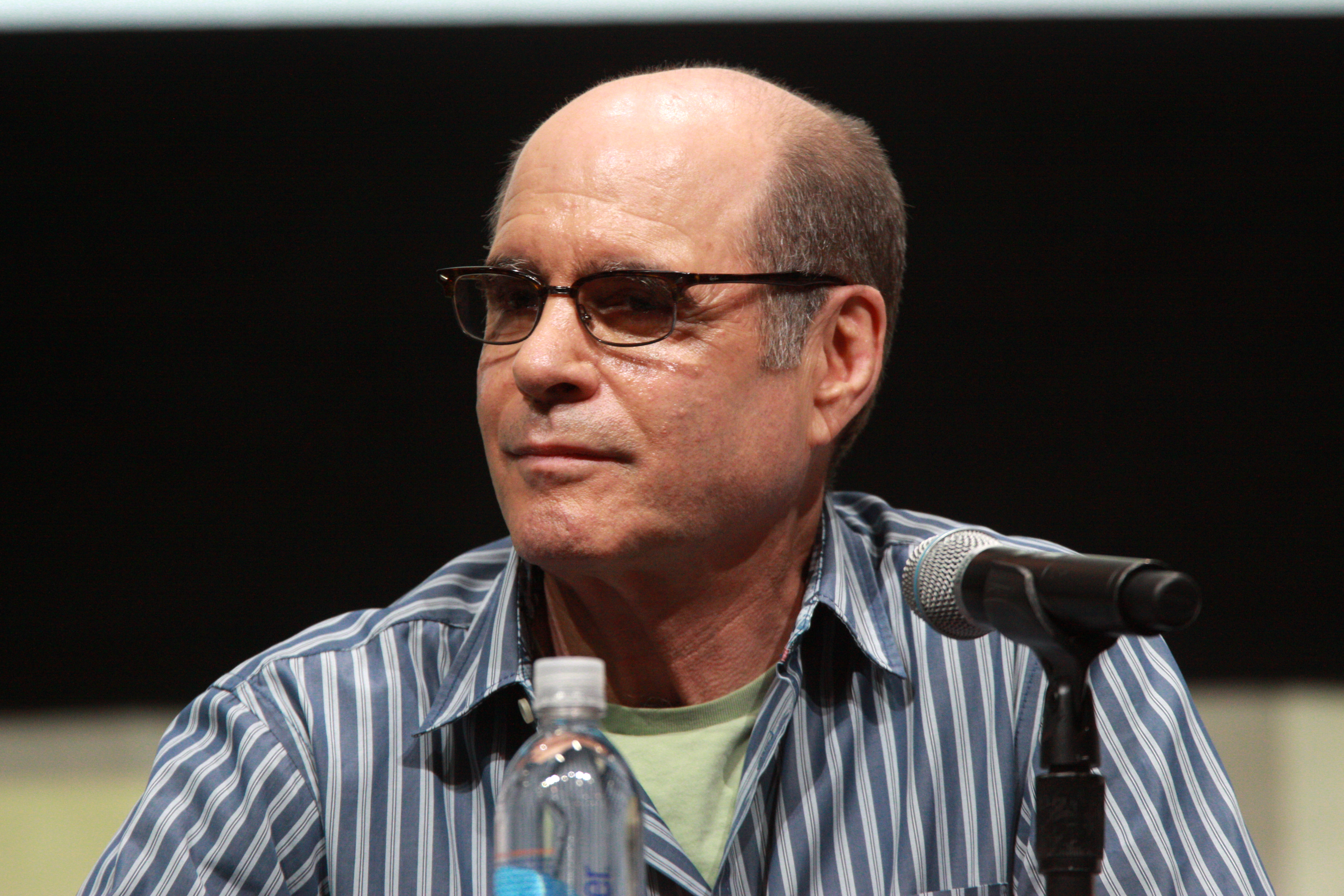 Clyde Phillips speaking at the 2013 San Diego Comic Con International, for "Dexter", at the San Diego Convention Center in San Diego, California.